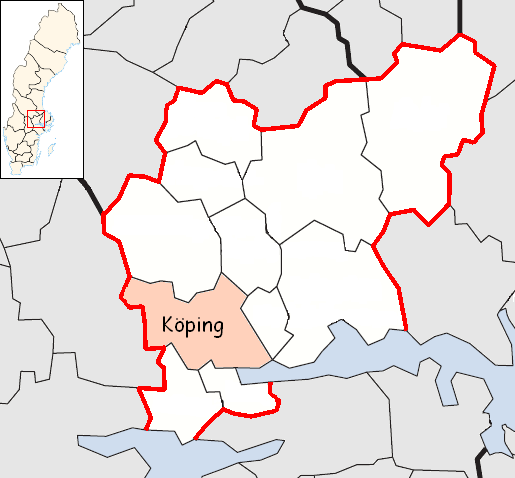 Köping Municipality in Västmanland County.